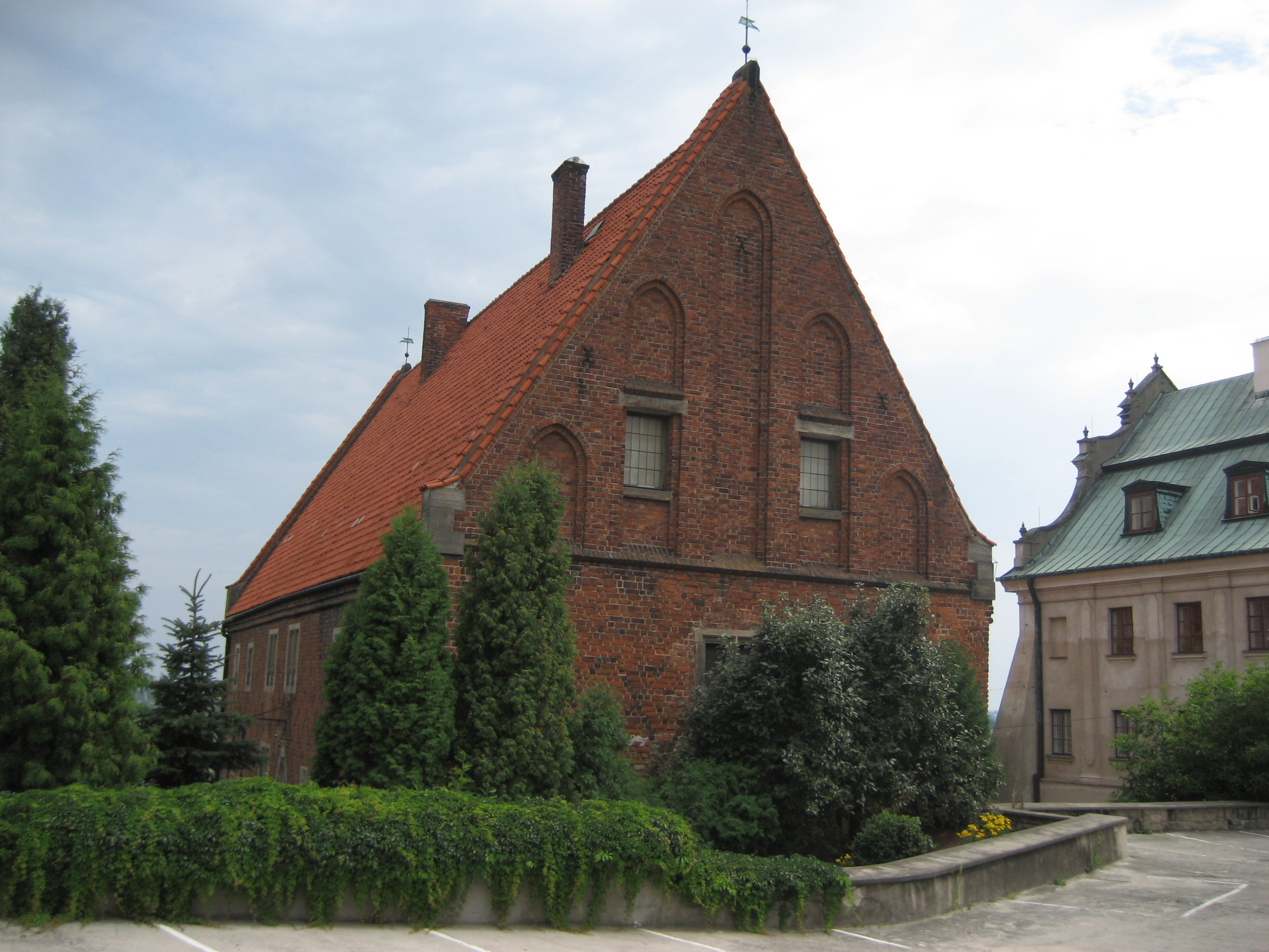 Jan Długosz's house, Sandomierz, Poland.